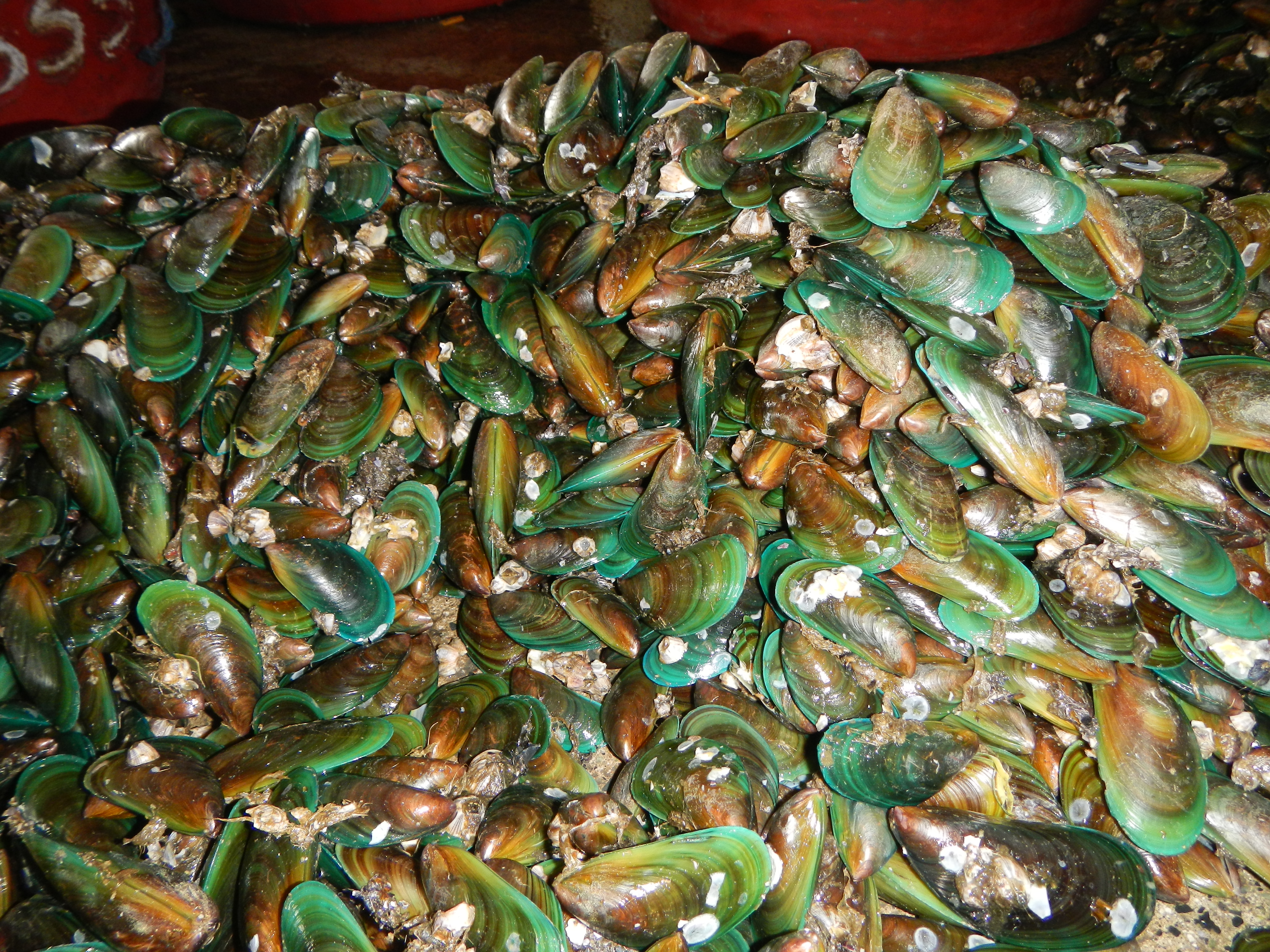 Perna viridis Asian green mussel or Tahong, in the Laureano R. Marquez Municipal Fish Port Obando, Bulacan.